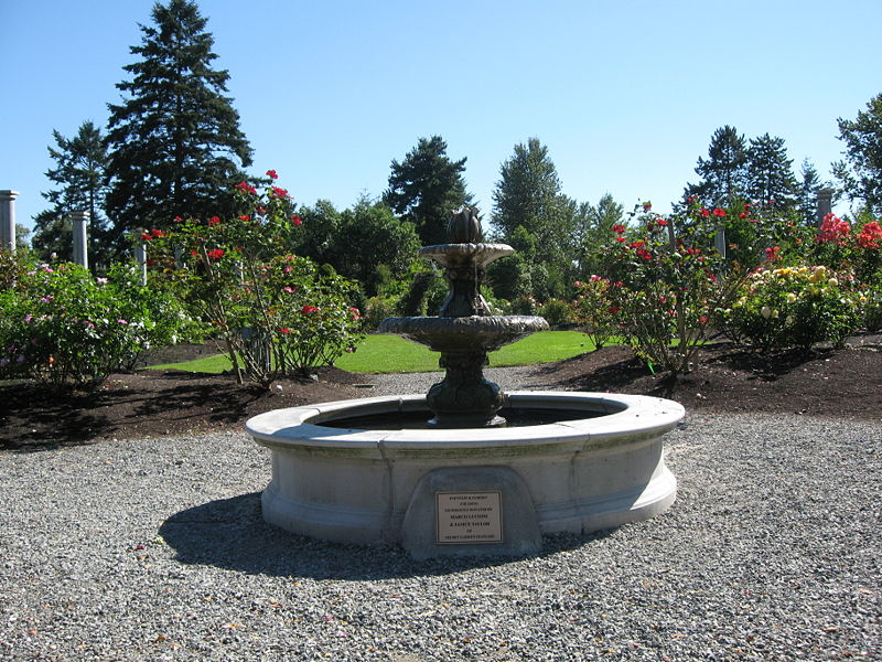 A fountain located in the Highline Botanical Garden in SeaTac, Washington, USA